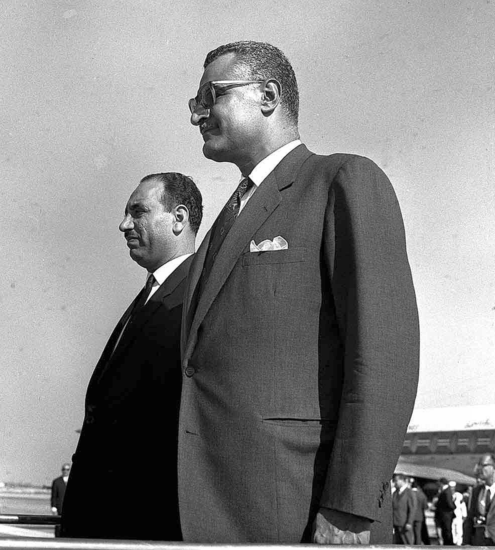 The Iraqi President Abdel Salam Aref departs from Alexandria Airport on 26th of August 1963, beside him the Egyptian President Gamal Abdel Nasser